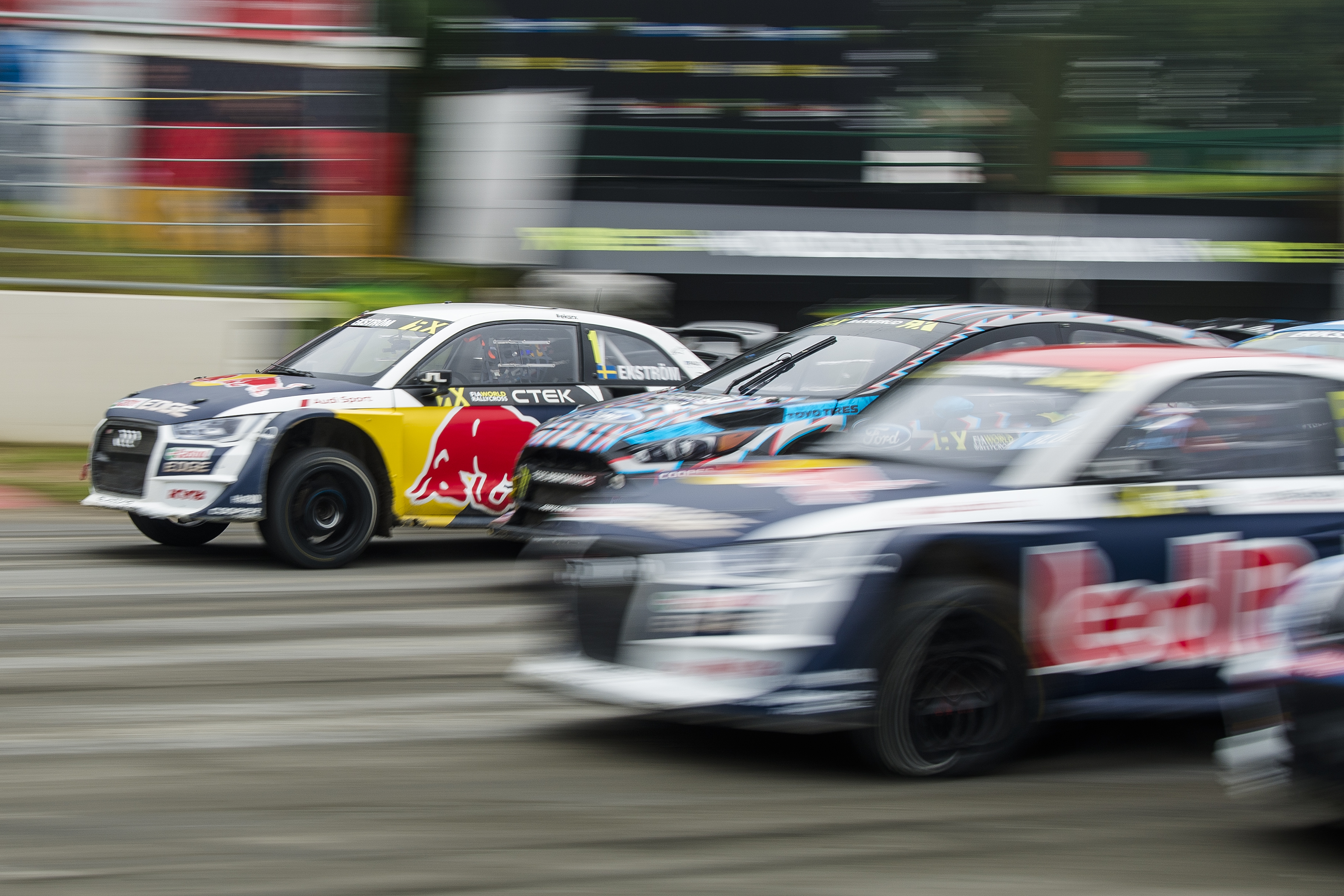 2017 FIA World Rallycross Championship // Round 11, Estering // Credit: EKS/Jaanus Ree